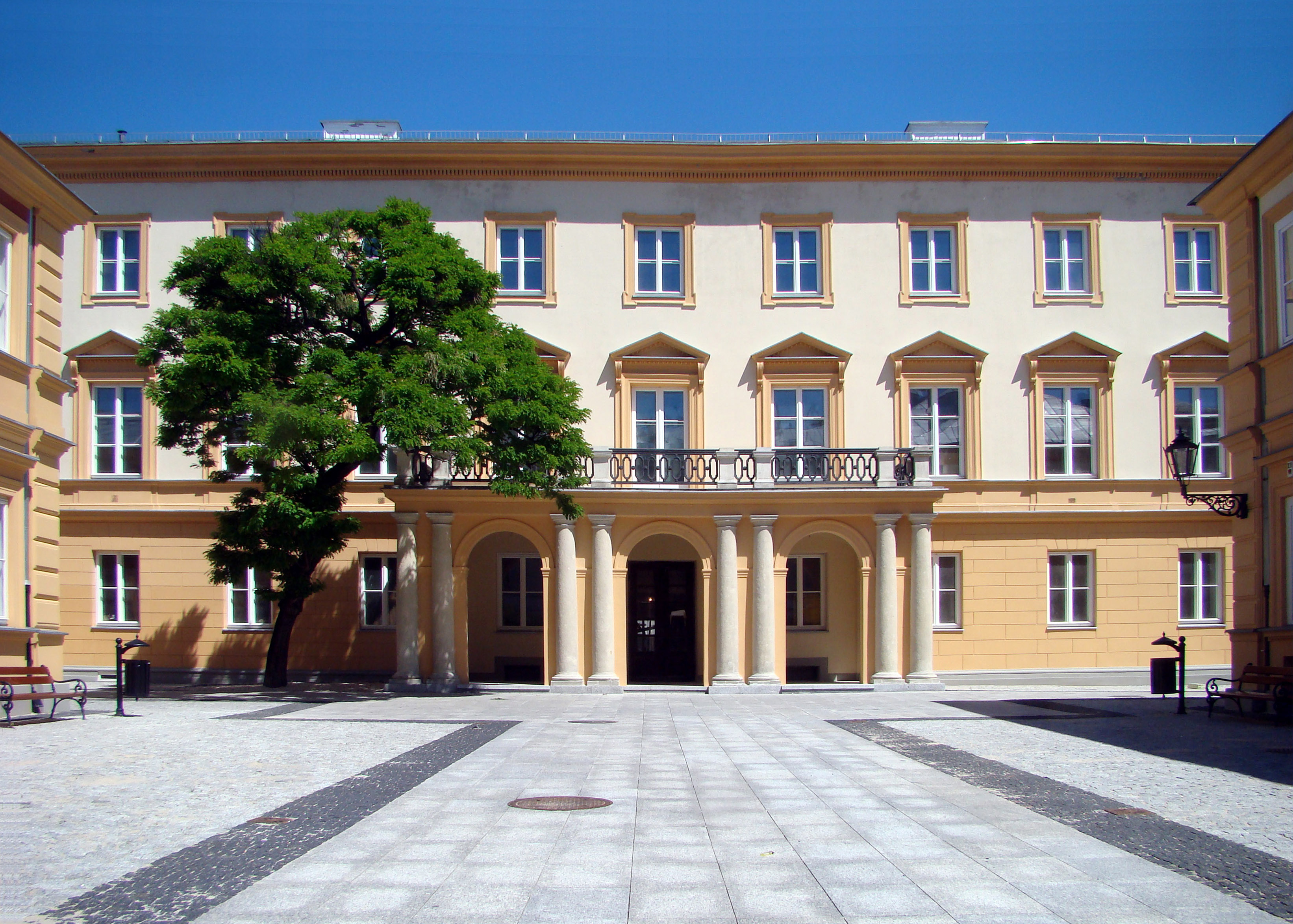 Branicki Palace at Nowy Świat Street in Warsaw, June 2010